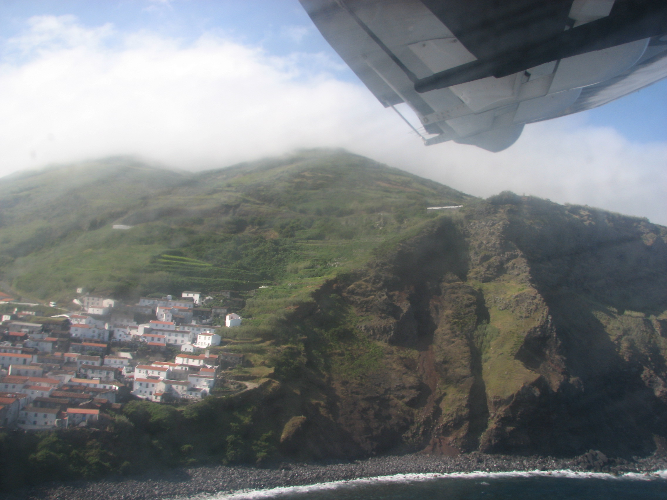 The southeastern coast of Corvo as seen when taking off from runway 120 of Corvo airport.